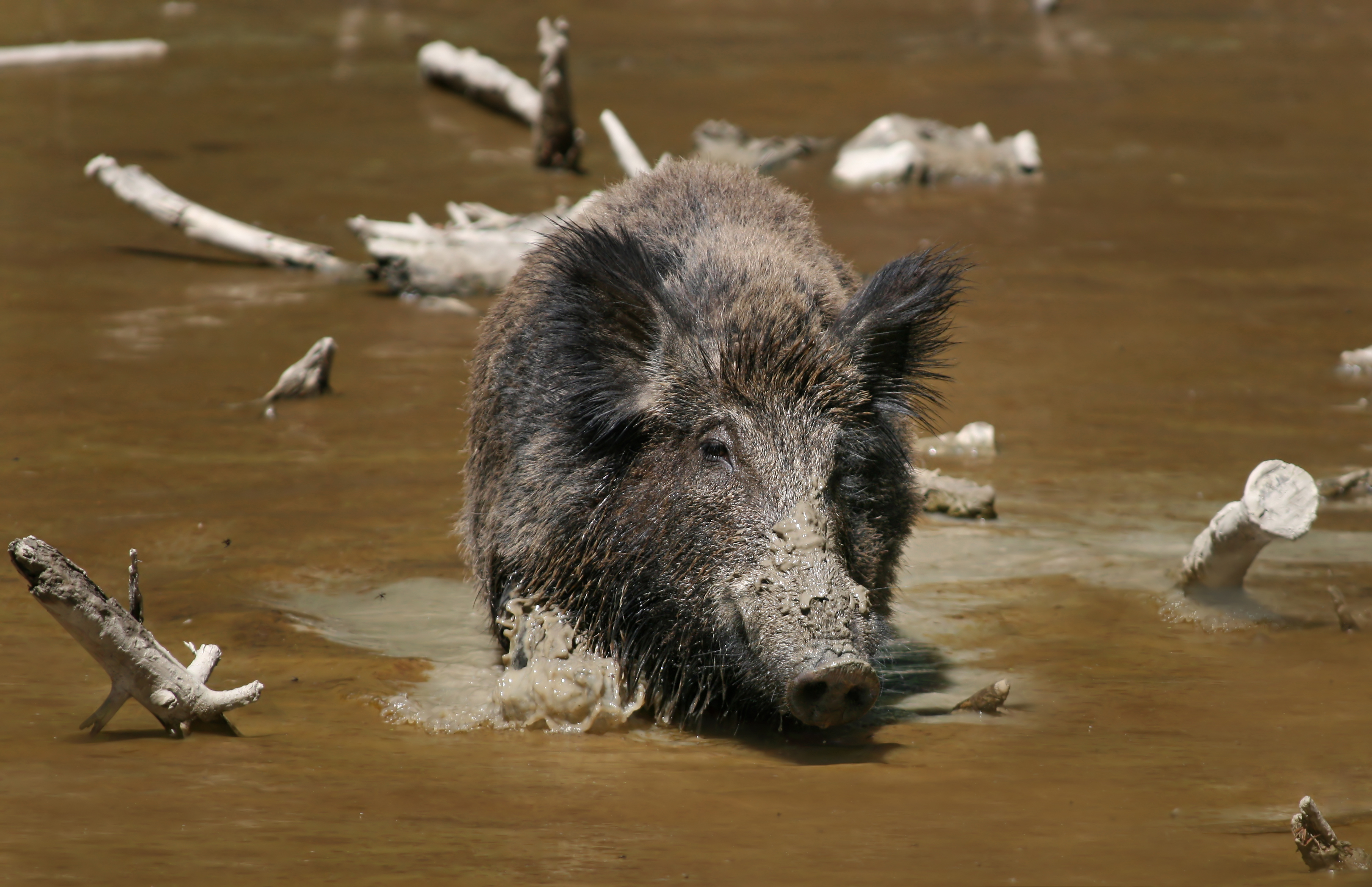 The Wild Boar (Sus scrofa) is the wild ancestor of the domestic pig. As shown in his natural habitat.